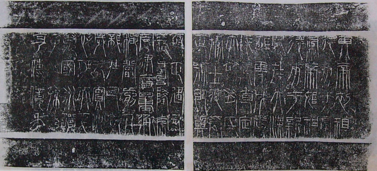 Jia-liang fine standard measure, Xin Dynasty, 9-24 C.E. The bronze mesure is stored in National Palace Museum, Taipei, Taiwan.